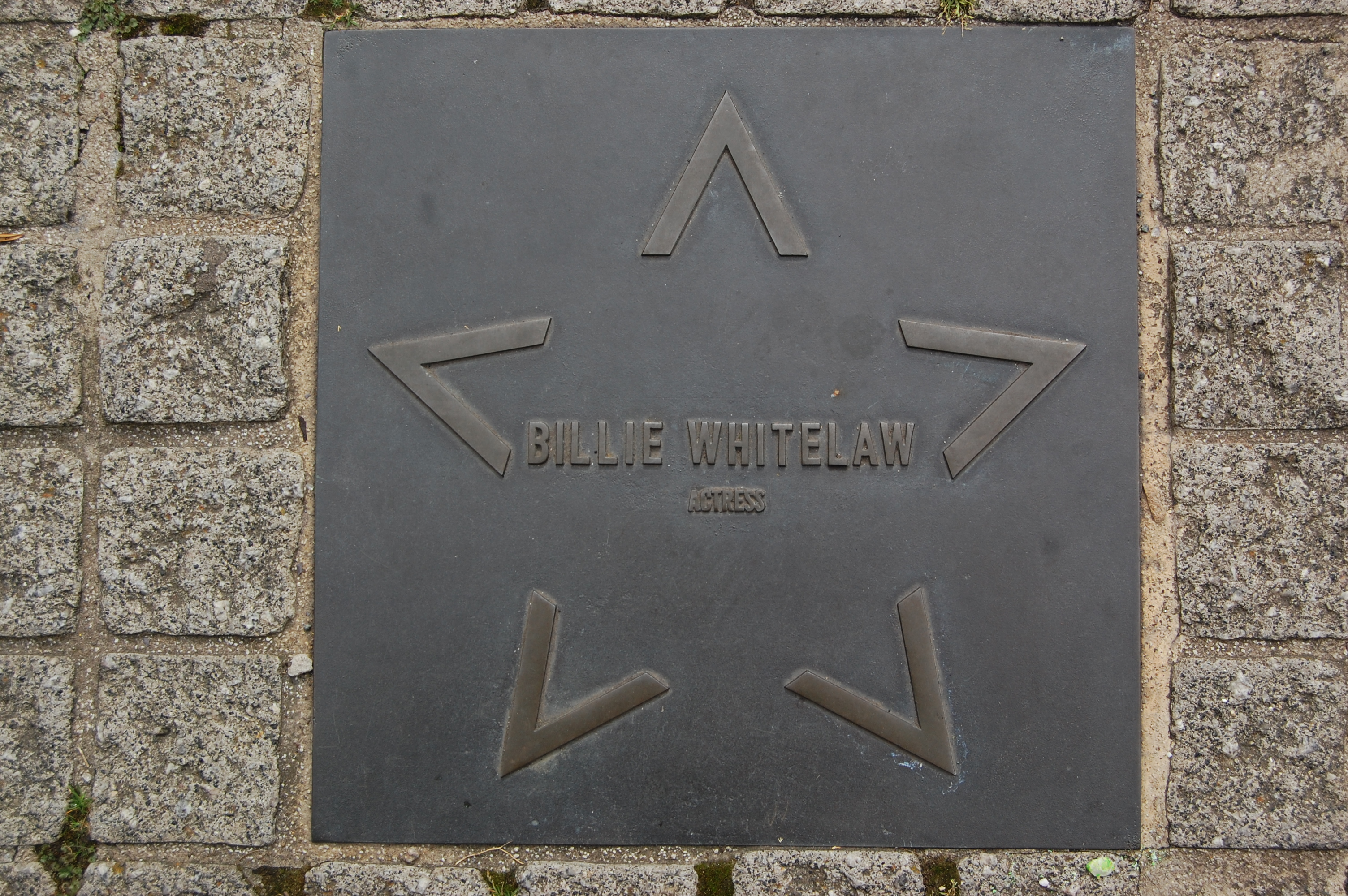 Coventry Walk of Fame - Billie Whitelaw